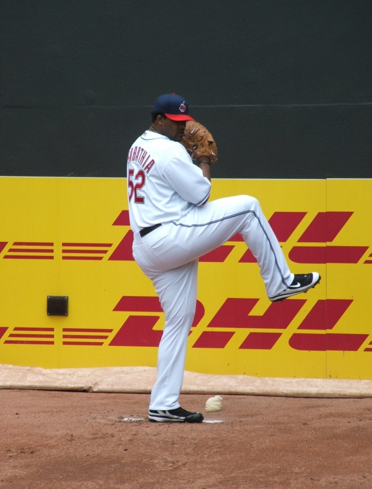 Cleveland Indians pitcher C.C. SabathiaCleveland Indians (9)